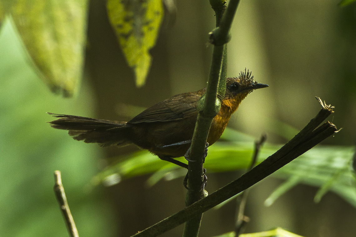 Slaty Bristlefront - Regua - Brazil_S4E2722